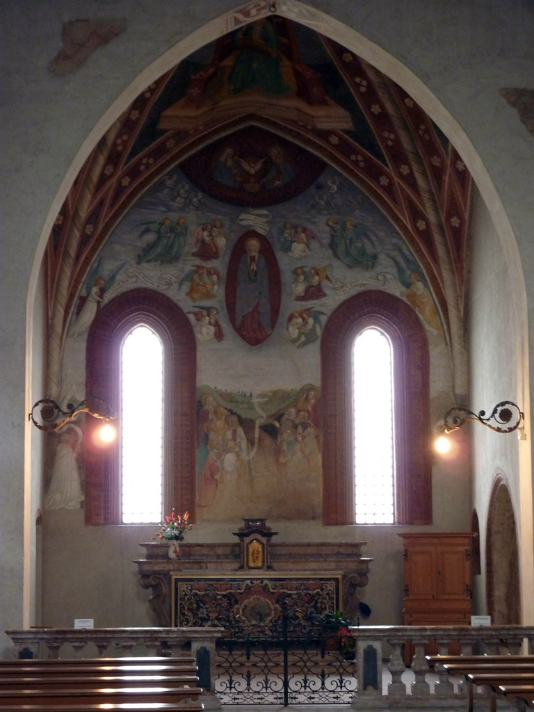 Interior of the church of the former Mirasole Abbey at Opera, near Milan, Italy